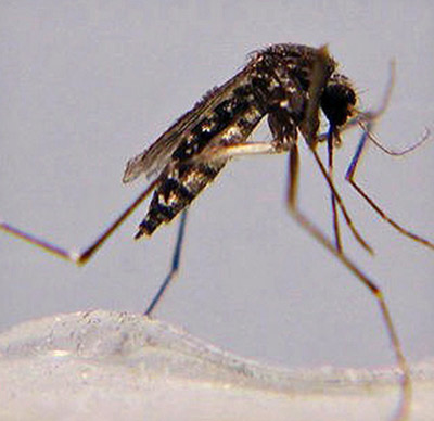 Adult female Aedes taeniorhynchus taken by Michele Cutwa courtesy of UFL-FMEL (University of Florida - Florida Medical Entomology Laboratory)